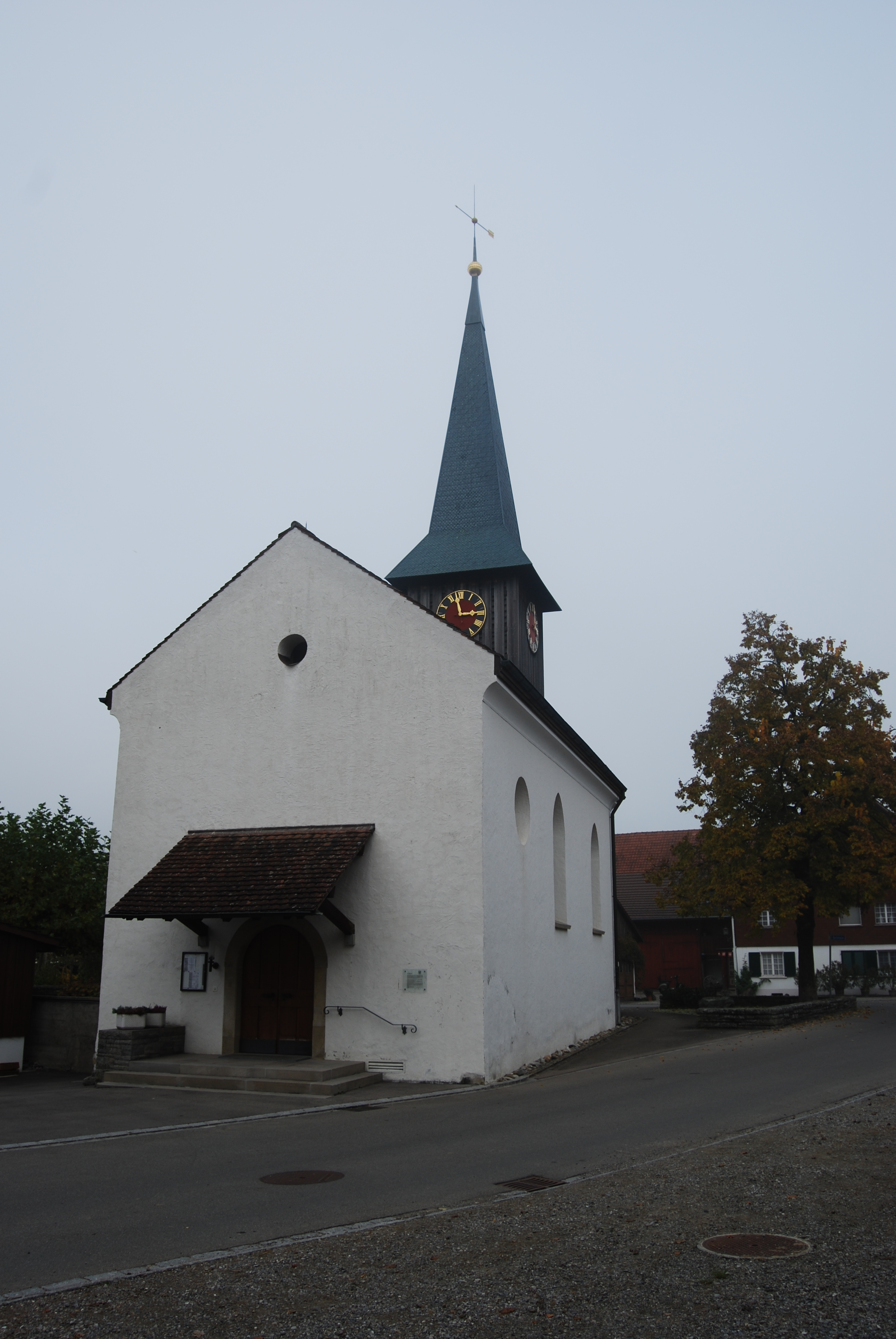 Church of Dorf, canton of Zürich, SwitzerlandEsperanto: Preĝejo de Dorf, Kantono Zuriko, Svislando